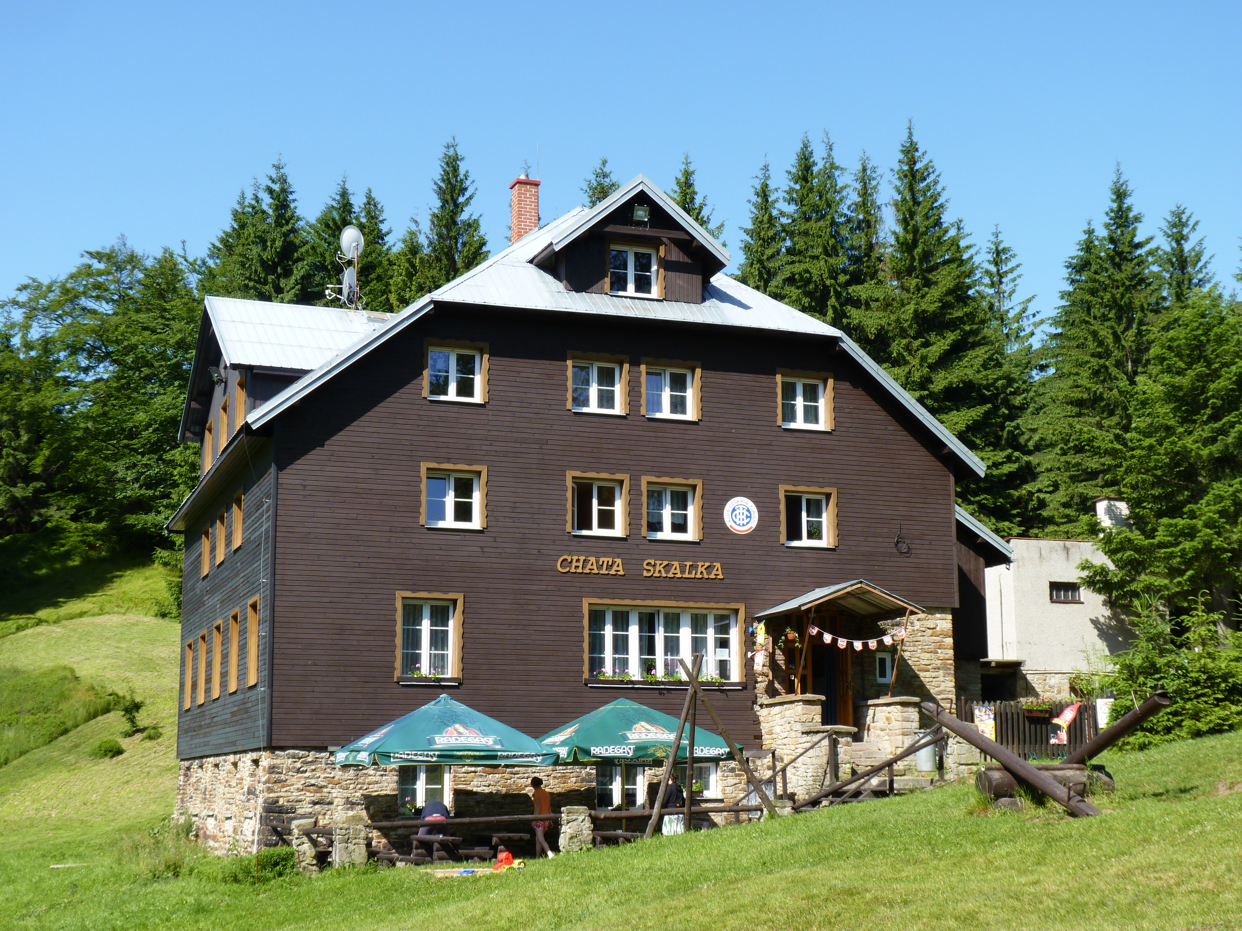 Moravian-Silesian Beskids, Czech Republic